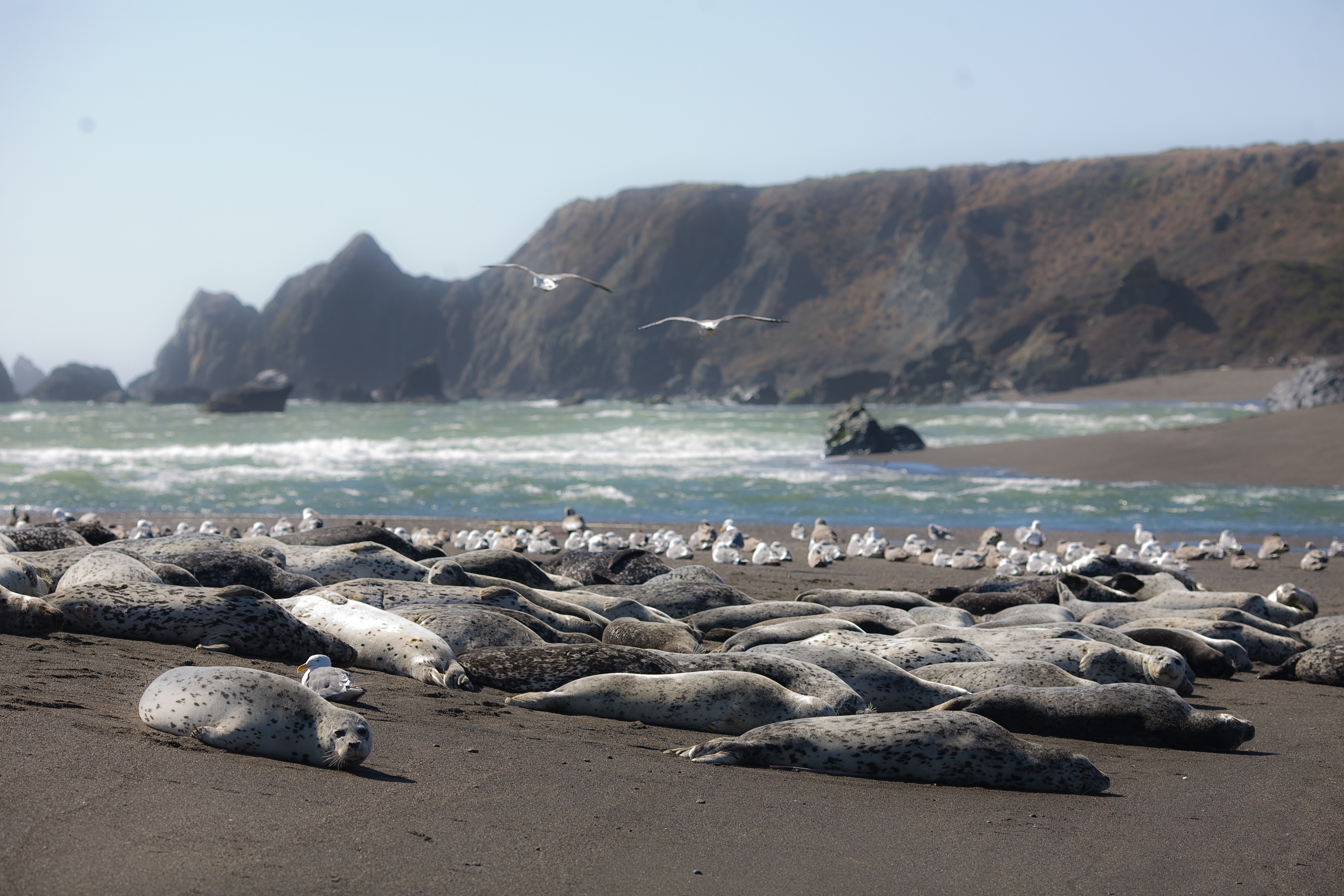 Harbor Seals and Seagulls in Bodega Bay, CA, USA